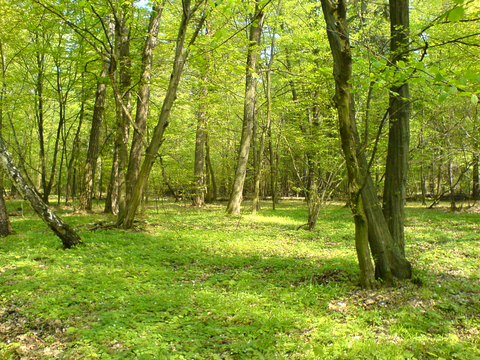 Poland, forest nature reserve "Grady nad Moszczenica", at Moszczenica river